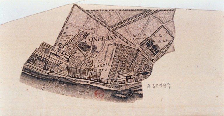 Conflans. Les Carrières Paris Famille Le Clerc Charenton-le-Pont